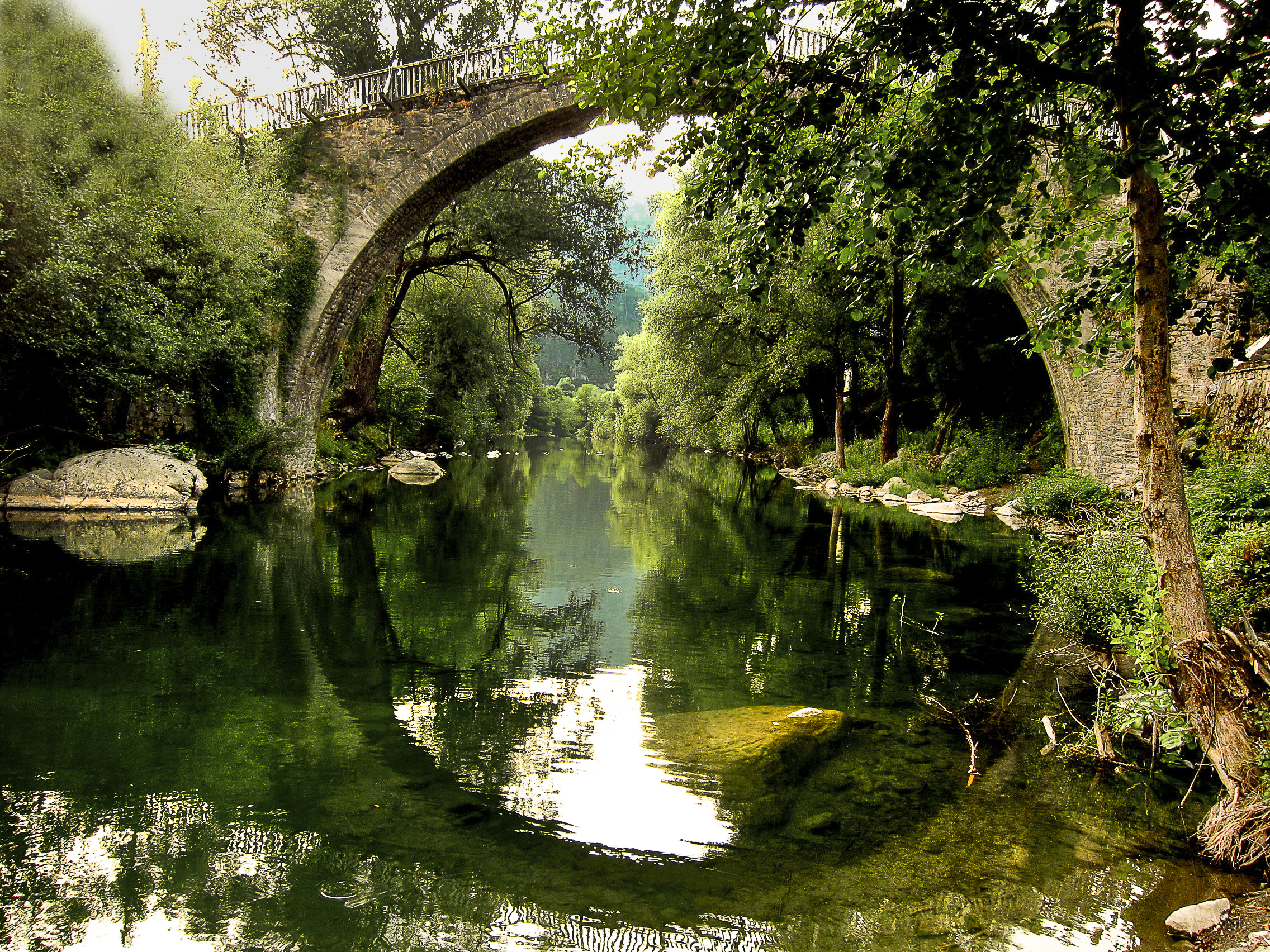 Photo was taken in Greece - Vovousa village. A perfect cycle formed on the water from the bridge and its reflection. This is a photography of Natura 2000 protected area with ID GR1310003